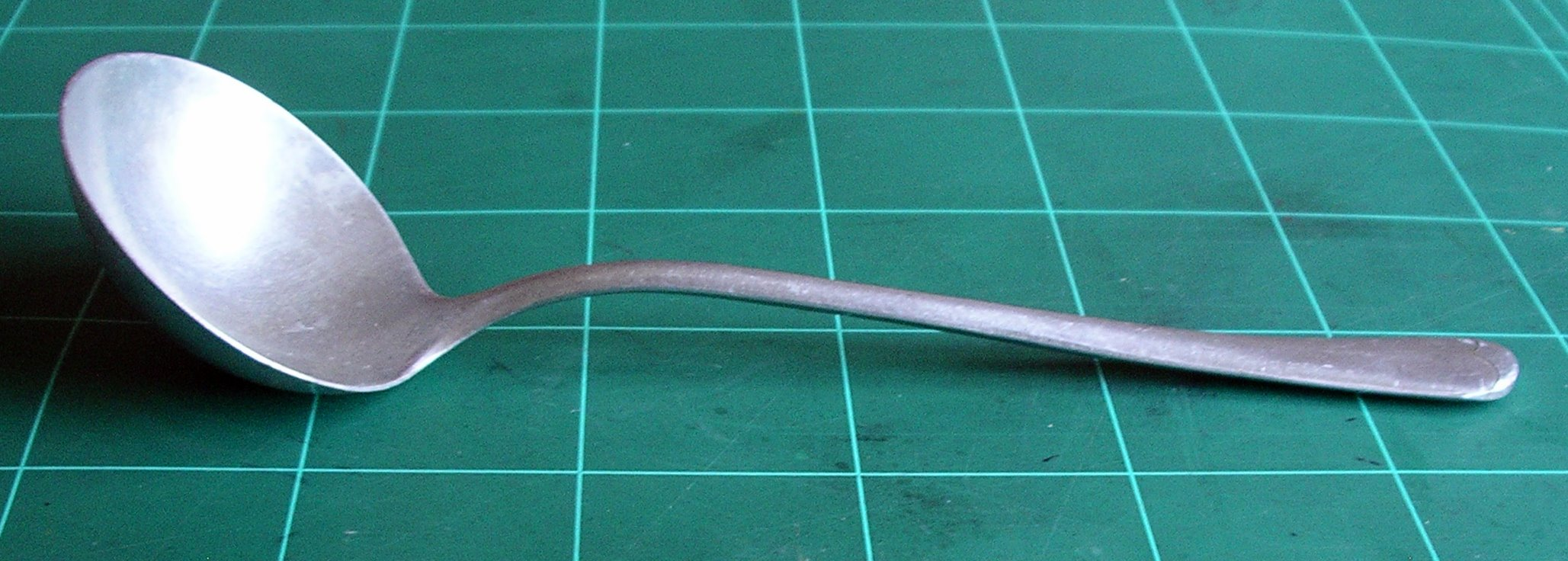 ladle made of Aluminium on a background of 5 cm squares.